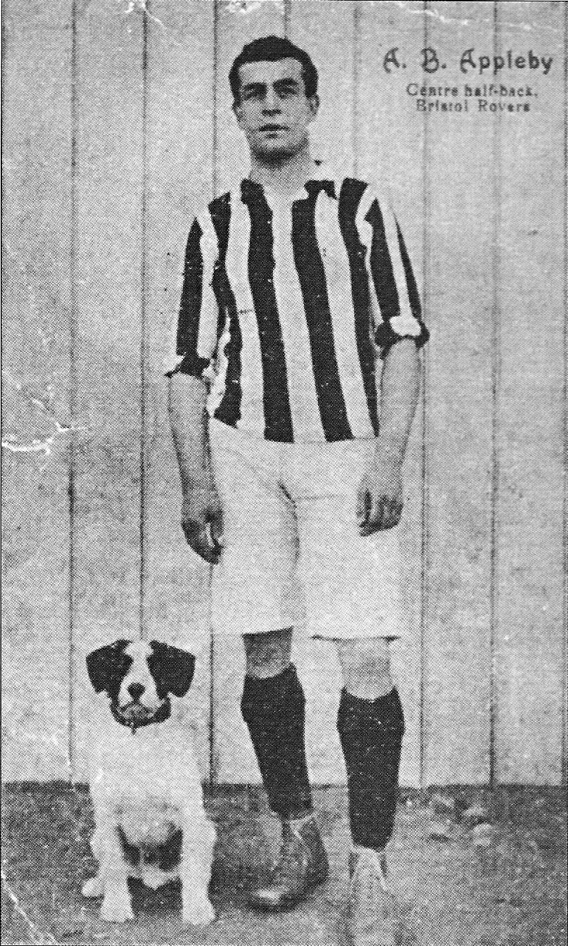 Photograph of former Bristol Rovers and West Bromwich Albion footballer Ben Appleby.